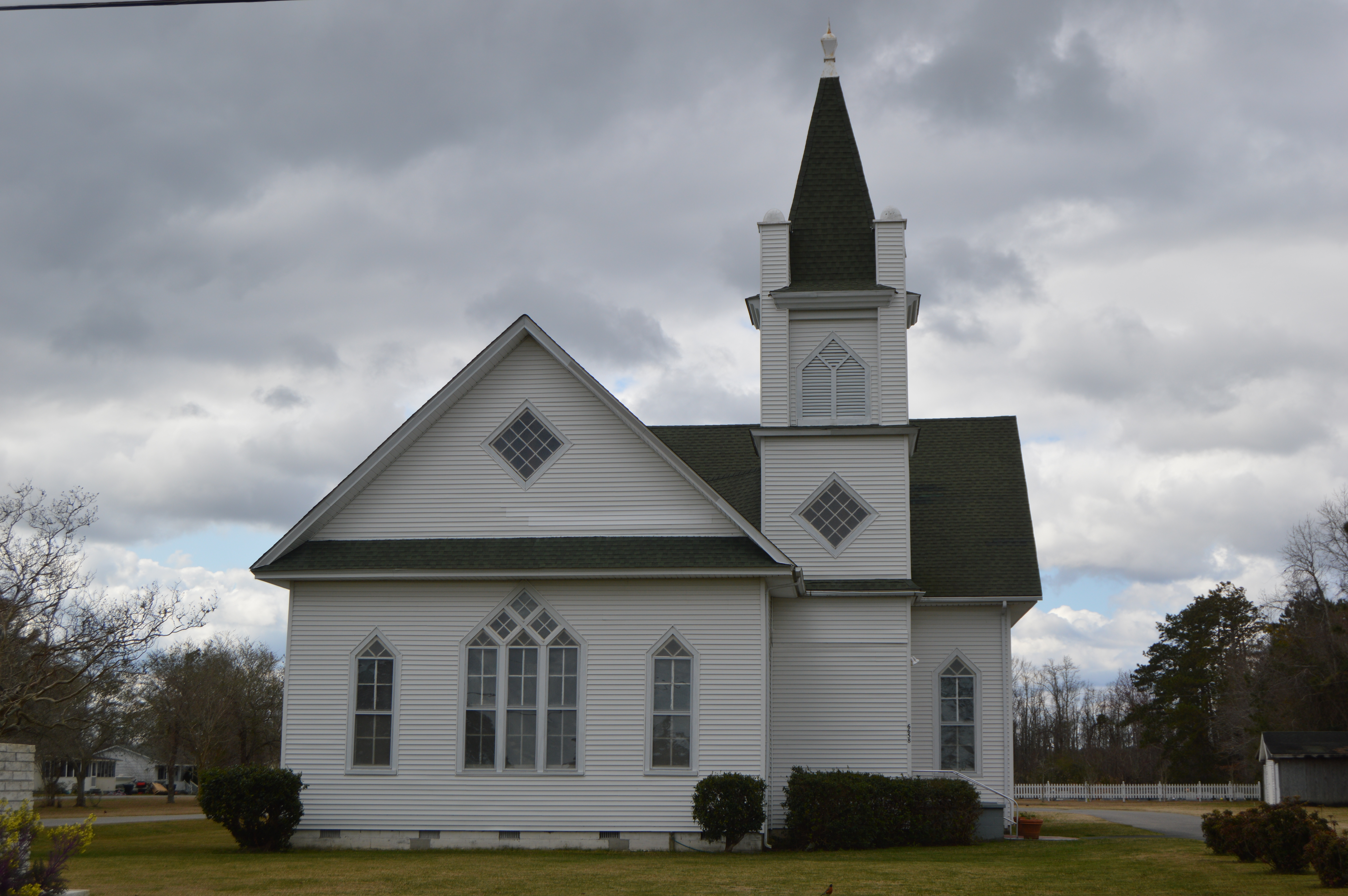 Front of Mount Carmel Methodist Church, located at 6658 U.S. Route 64 in Manns Harbor, North Carolina, United States.